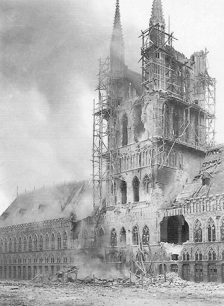 Brand van de Lakenhallen (Fire of the Cloth Hall) on 21 november 1914.